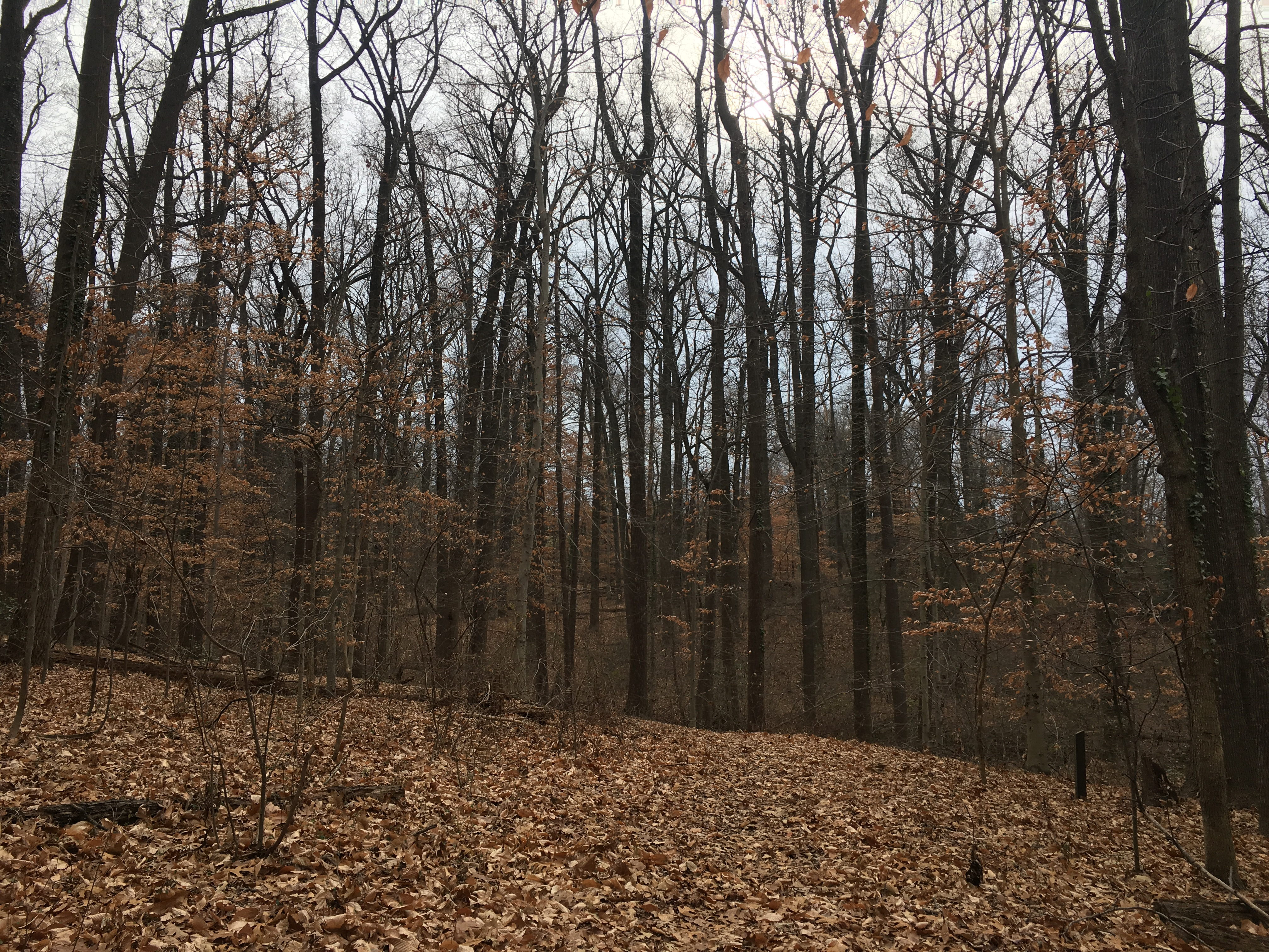 A view of the woods at Fort Dupont Park in December, 2017. Facing Southeast about 1,000 feet from the Fort Dupont Park Activity Center.